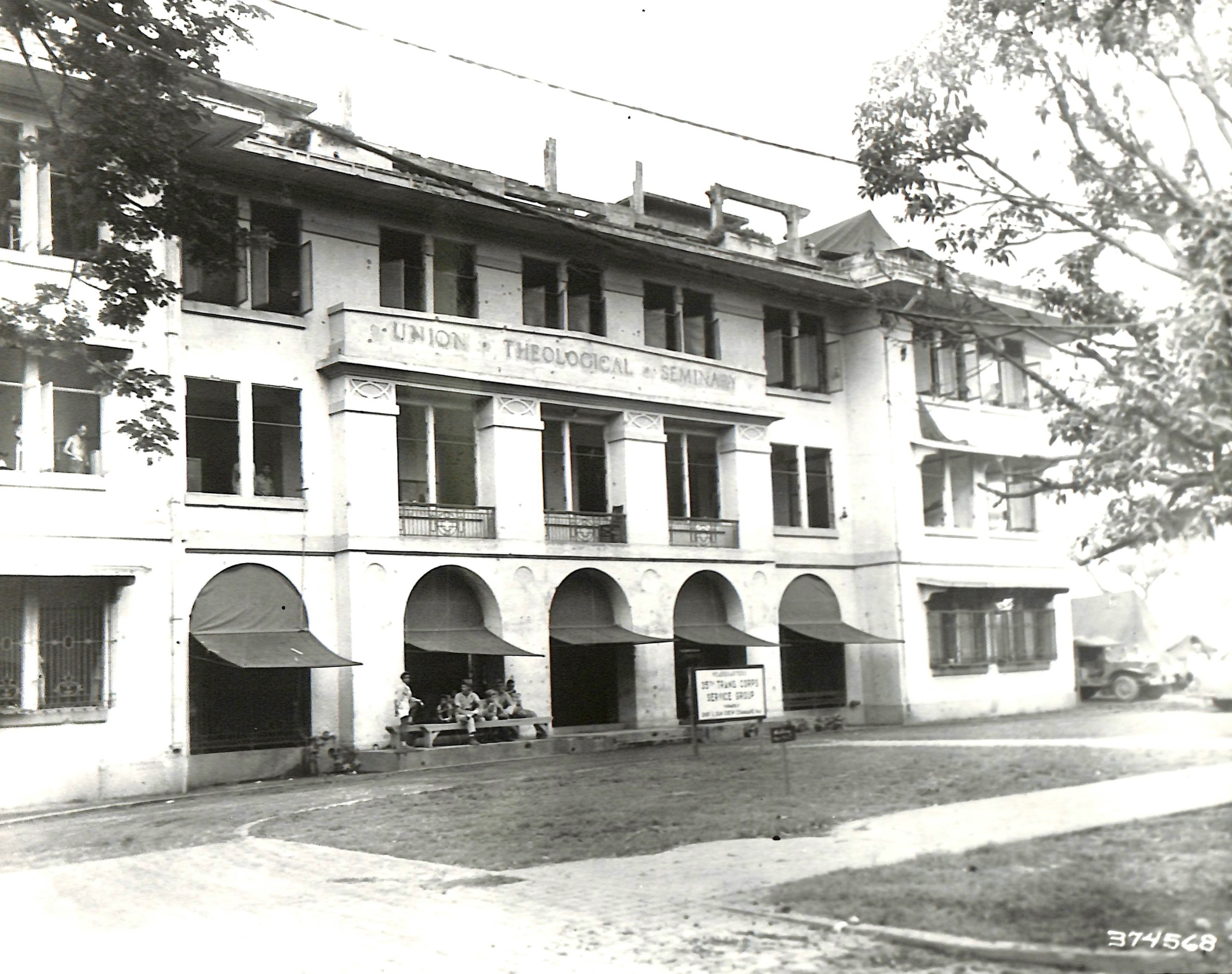 SC 374568 Union Theological Seminary on Taft Avenue in Manila, damaged during the fight for the city. Signal Corps Photo #SWPA-45-30308 (Guyon) Released by BPR - 25 Aug 1945 Orig. neg. Lot 12144